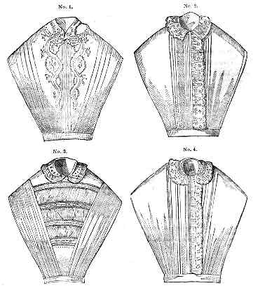 Illustration of Chemisettes from Godey's Lady's Book for April 1850.